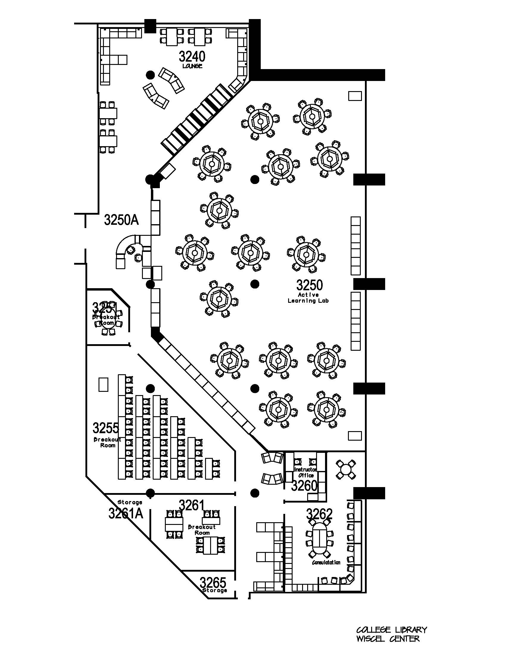 College Library Blueprints